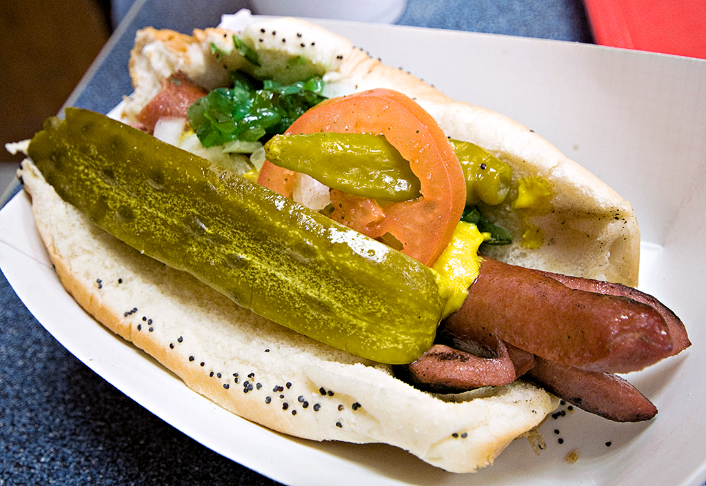 Chicago style hot dog